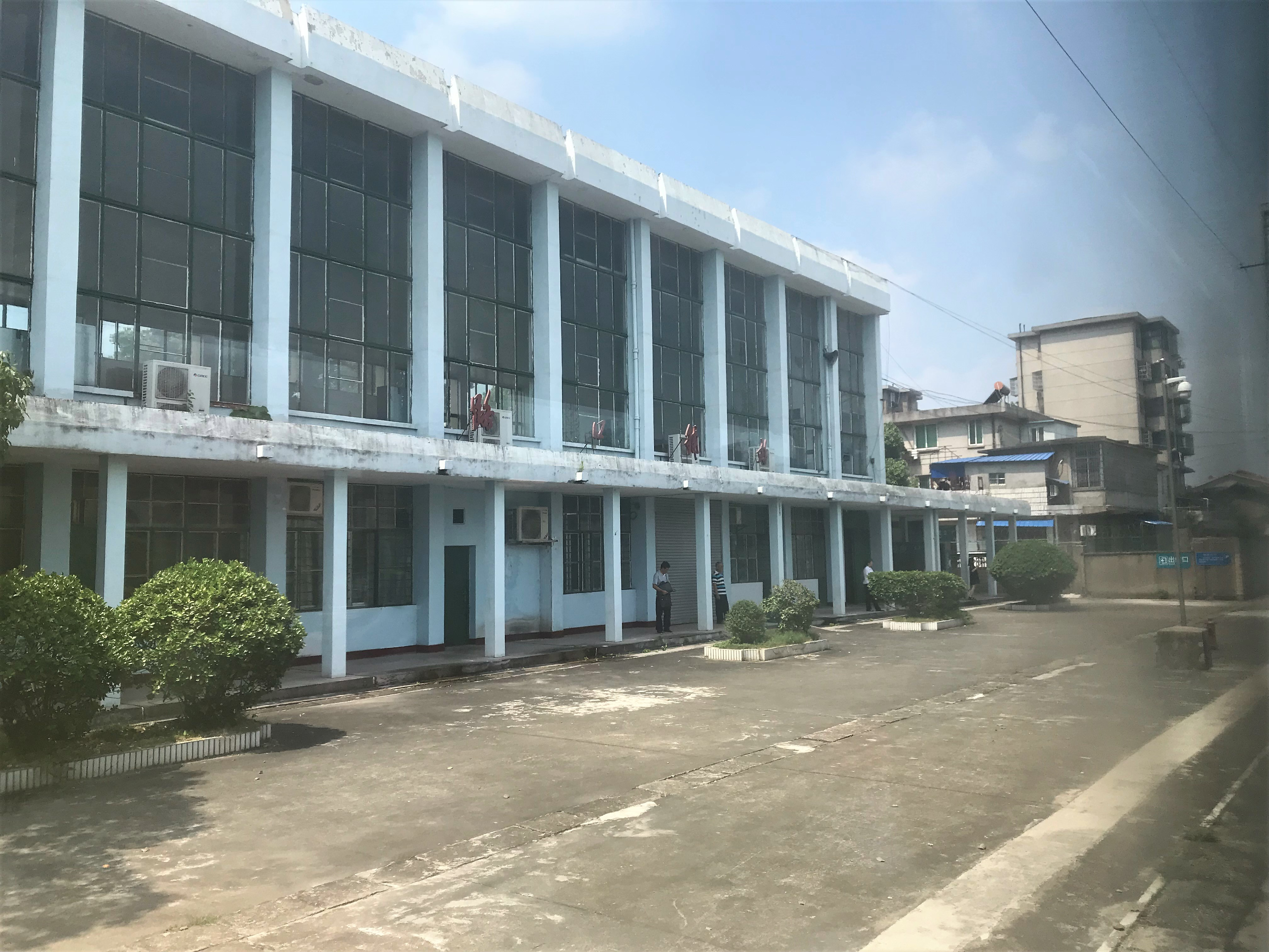 Same feeling as Guixi, Yiyang or Hengfeng?